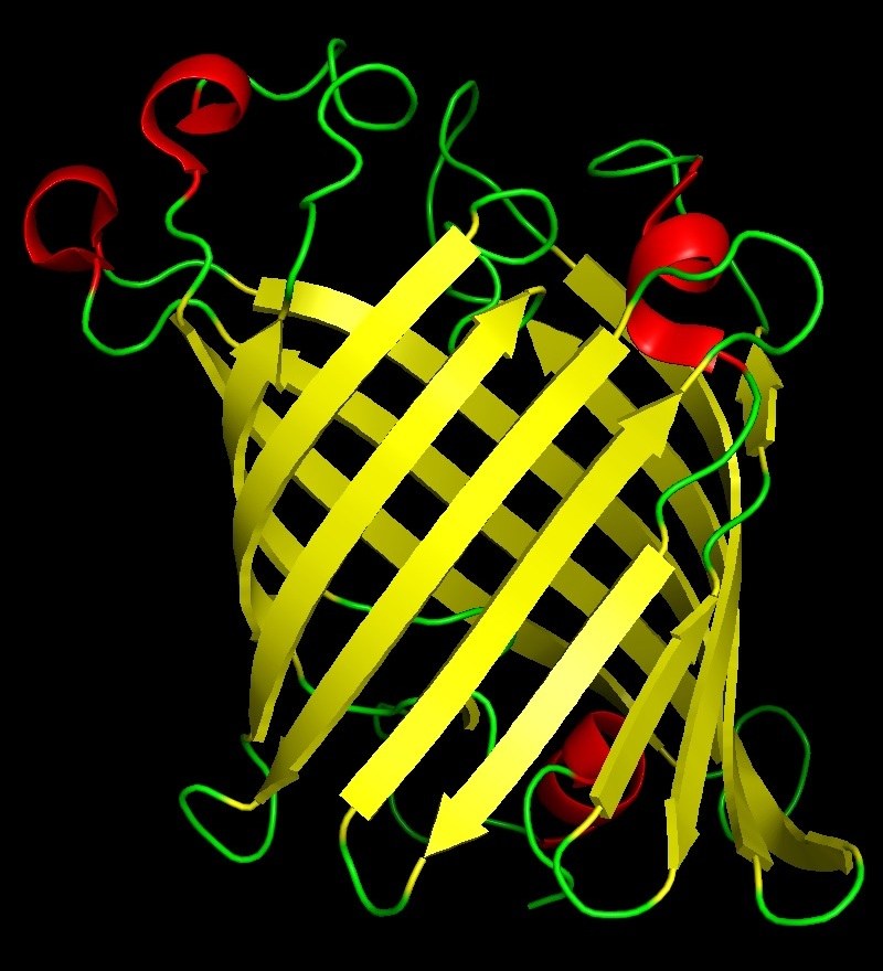 Crystallographic structure of Phospholipase A1. Red region denotes alpha helices, Green region denotes loops, and yellow region denotes beta sheets.